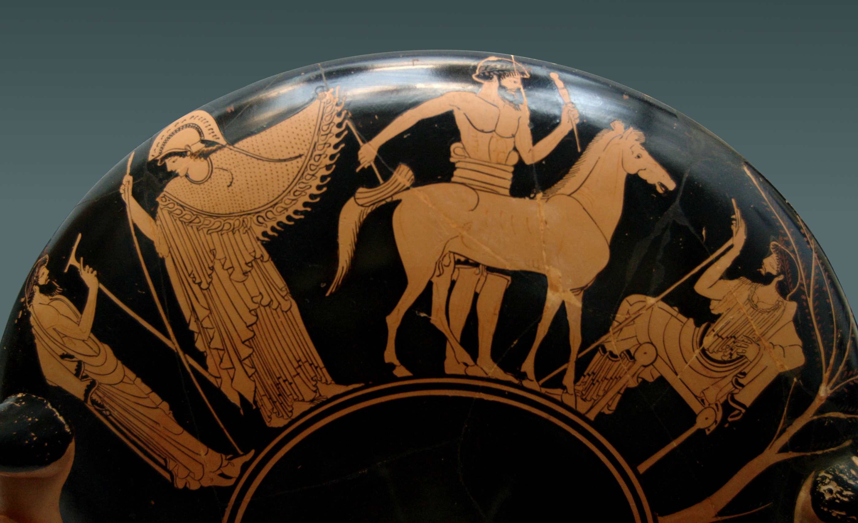 Athena wearing aegis visiting (as goddess of art) the workshop of a sculptor working on a marble horse (Epeius on a model of the Trojan horse?). Side A of an Attic red-figure kylix.